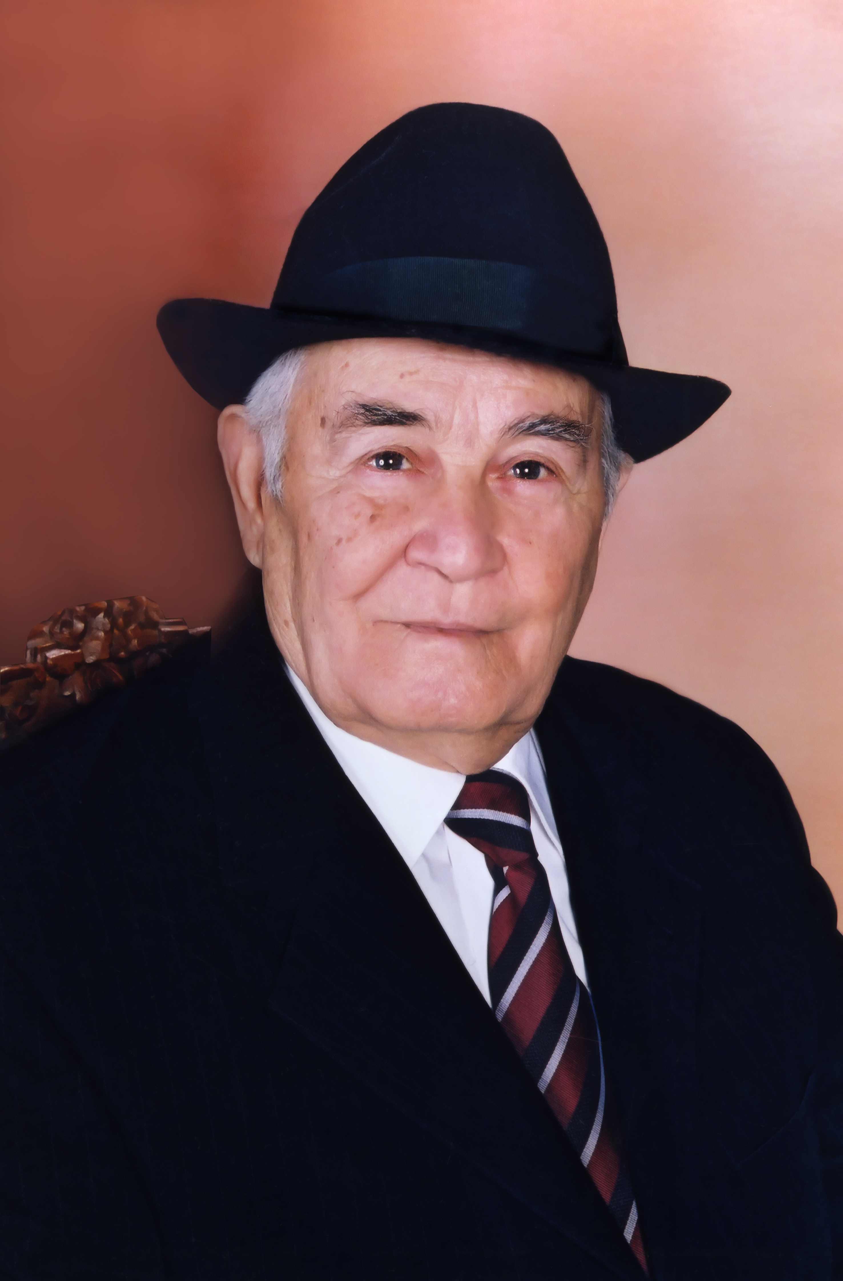 Cavadov Məmməd Kərim oğlu — bəstəkar, prezident təqaüdçüsü.